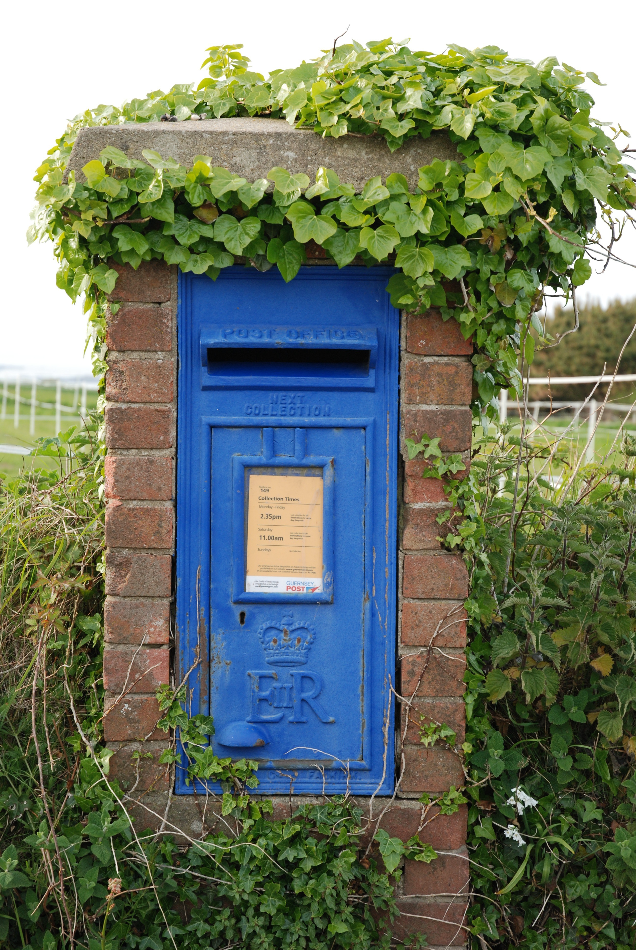 Elizabeth II wall-mounted post box on Guernsey